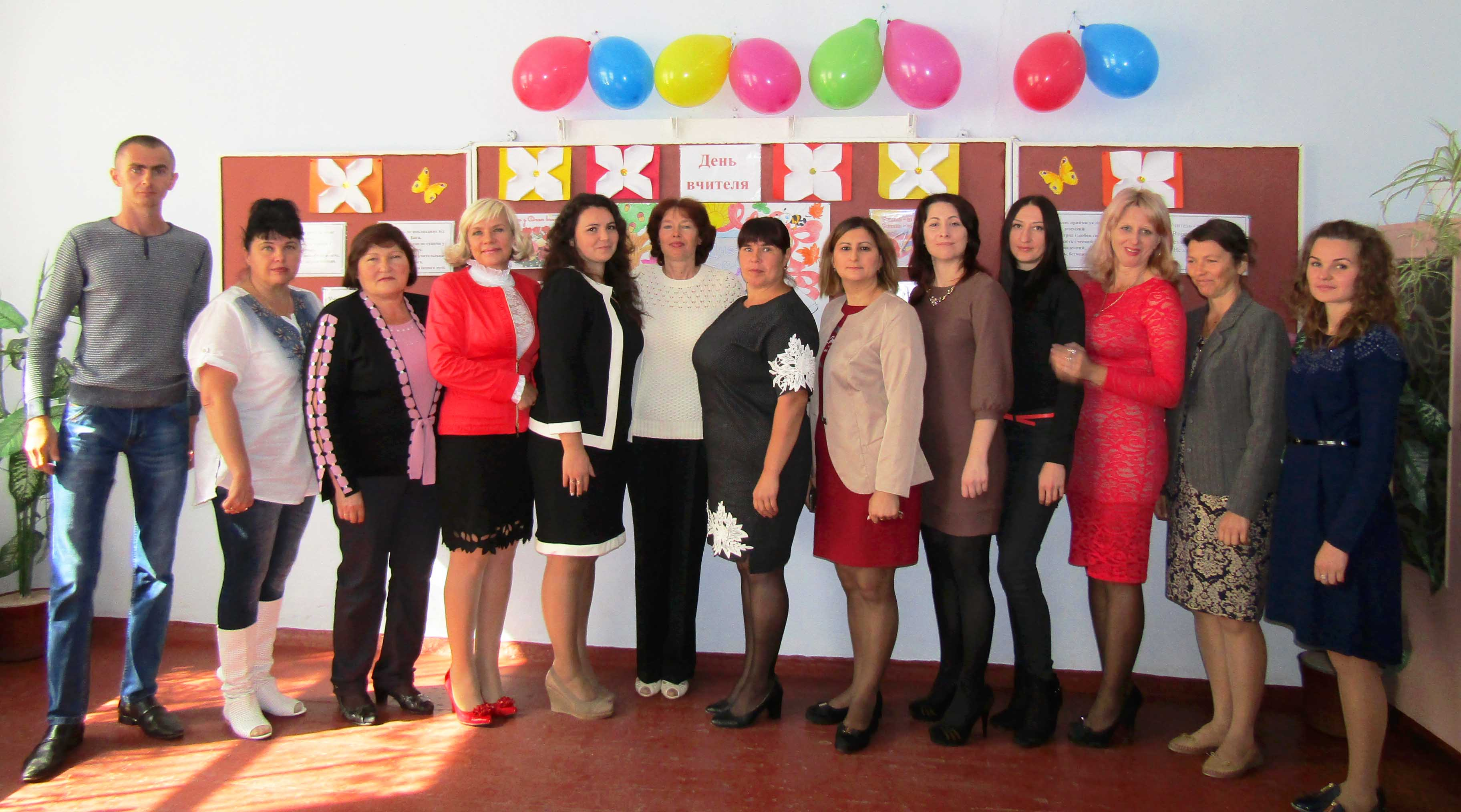 Teachers of the school No. 6 in Kiliya, 2016/2017 school year